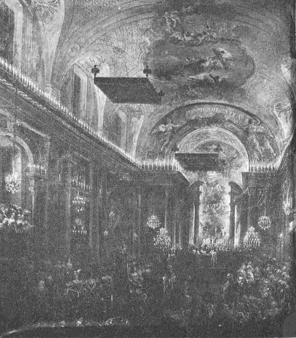 Painting of a royal christening of the future Gustav IV Adolf in the church in the Royal Palace in Stockholm in the late 18th century